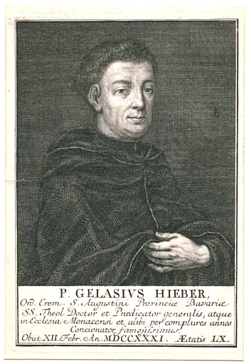 The augustinian monk and preacher Gelasius Hieber (1671-1731)